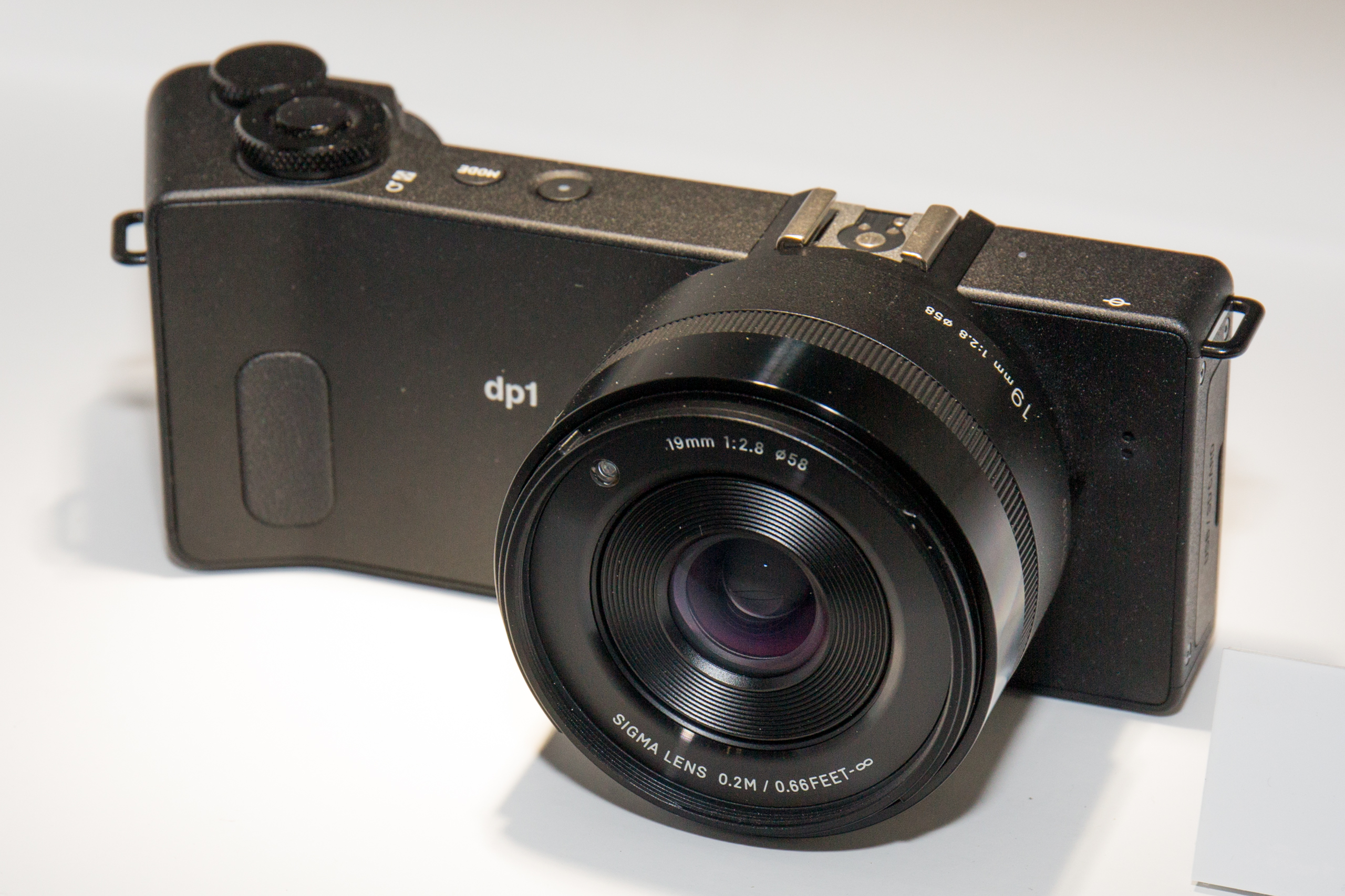 CP+ 2014: 2014 Sigma dp1 Quattro